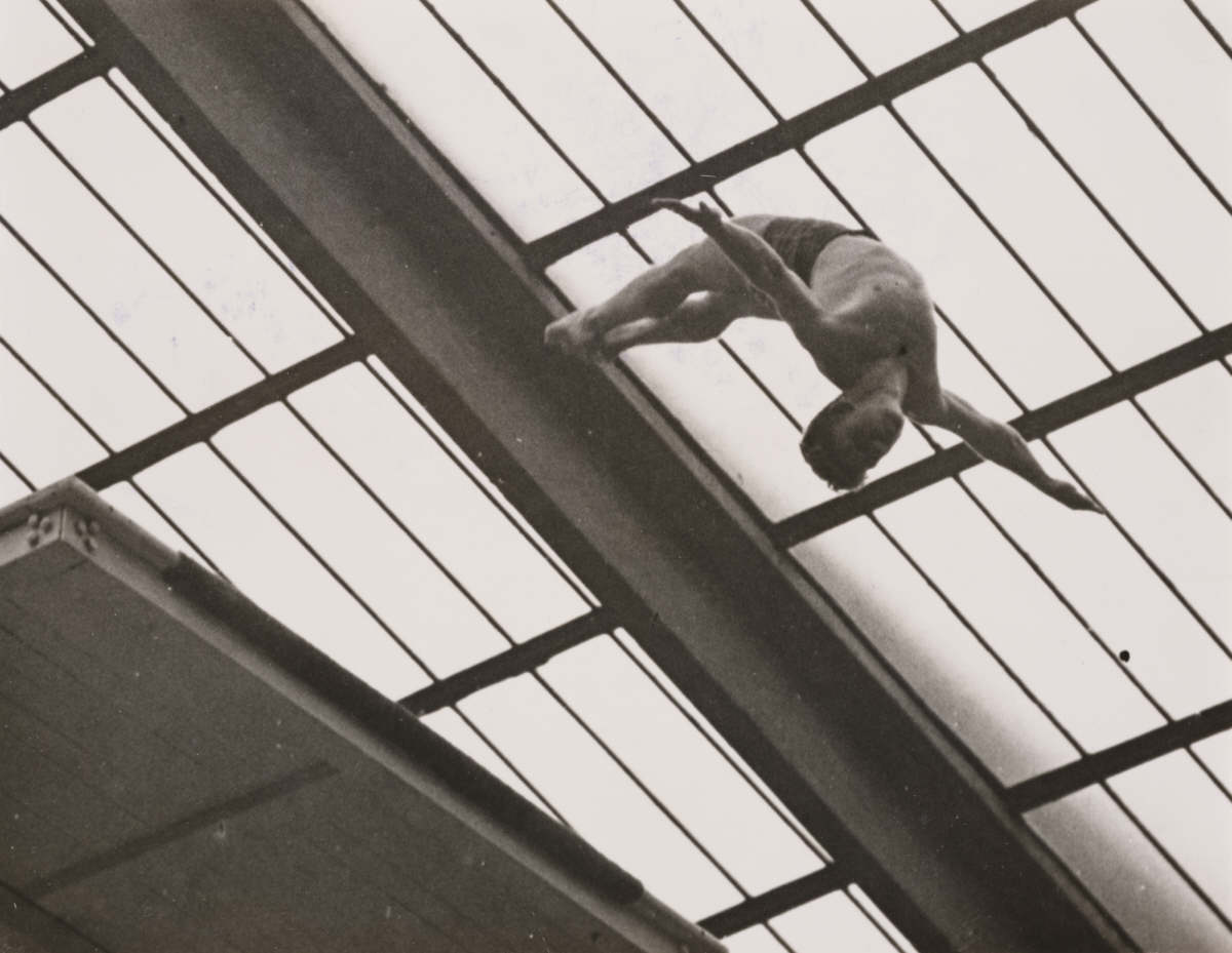 R. M. Stigersand in the Men's High Diving competition, Olympic Games, London, 1948. Daily Herald Archive at the National Media Museum